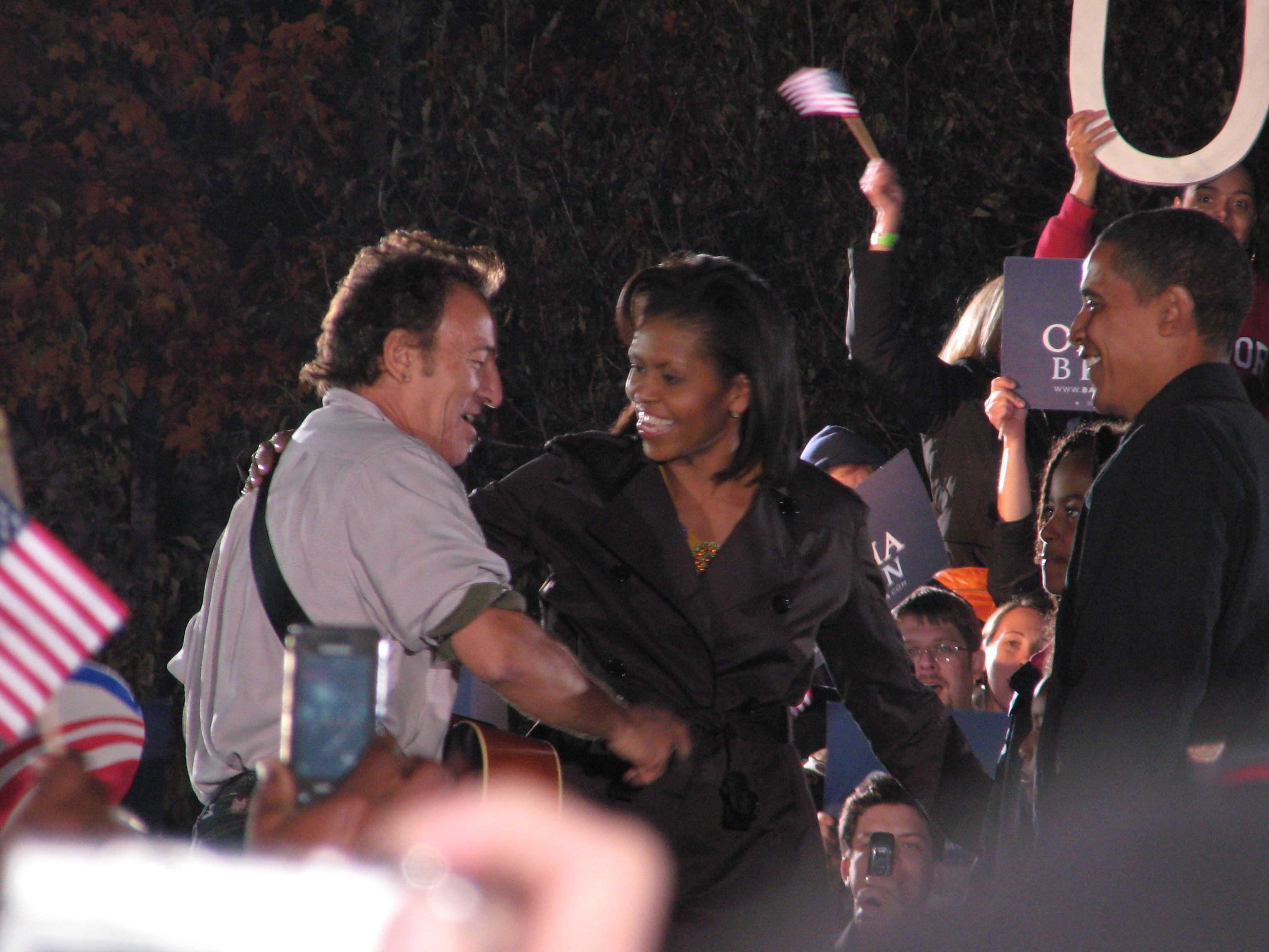 Bruce Springsteen, Michelle Obama and Barack Obama